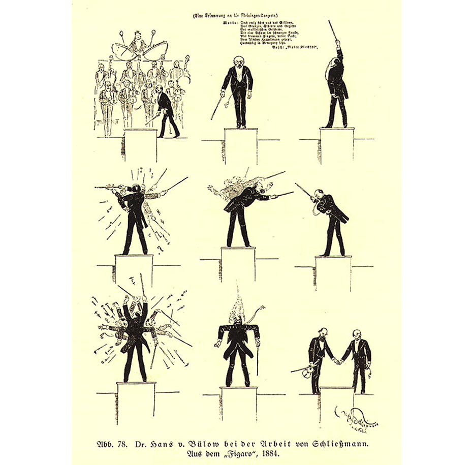 Hans von Bülow conducting. Caricatures by Hans Schließmann published in Figaro in 1884.